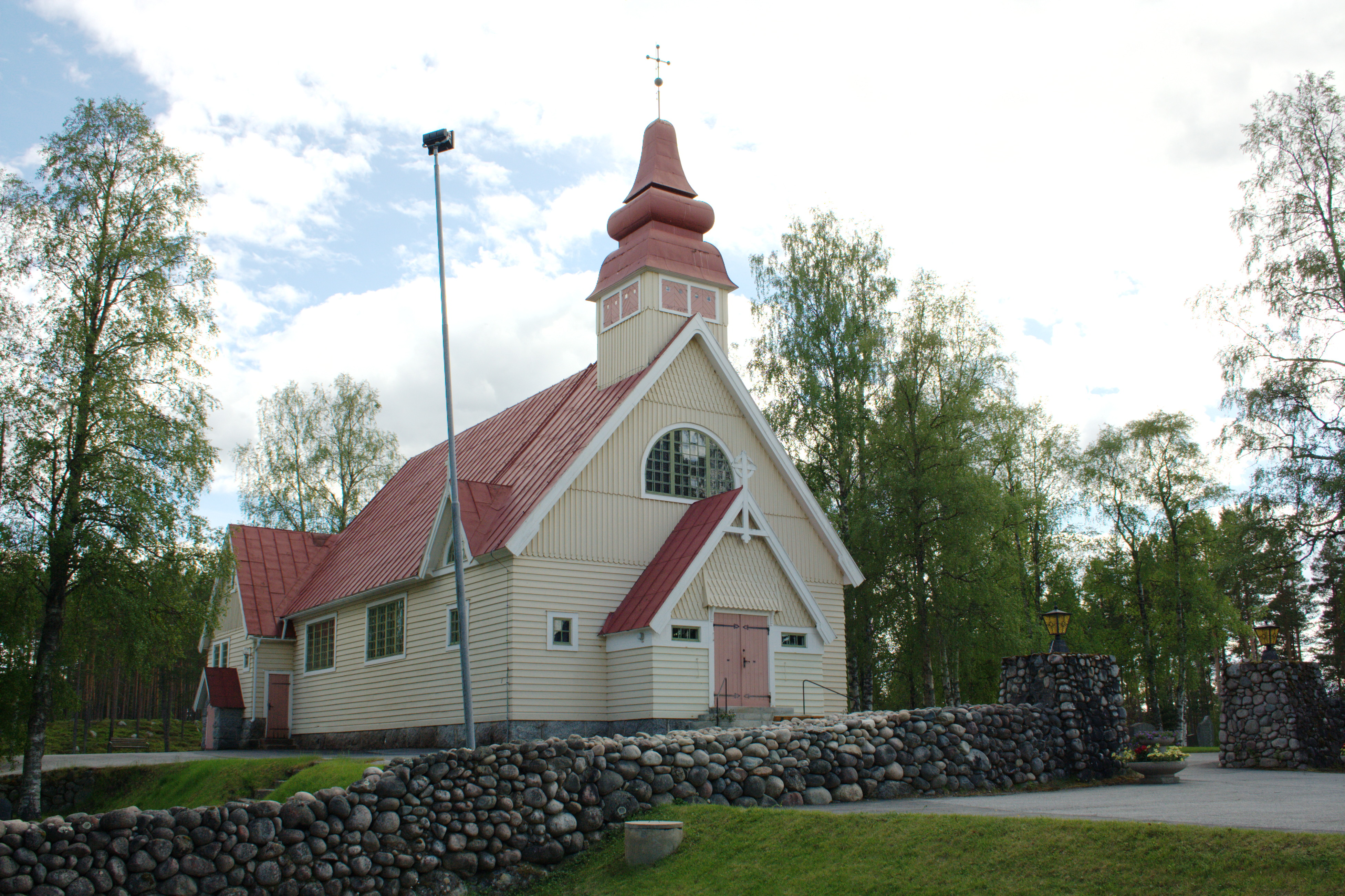 Gargnäs church